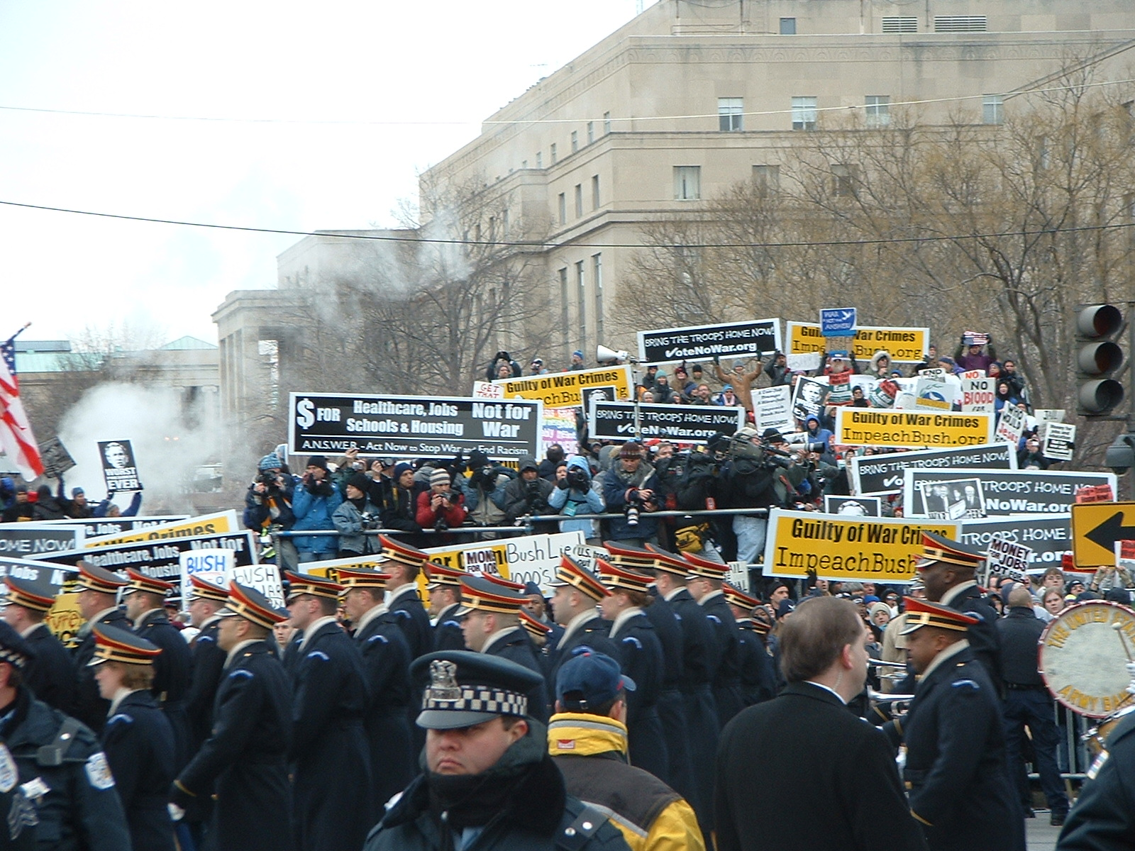 Inauguration Day Protests 2005